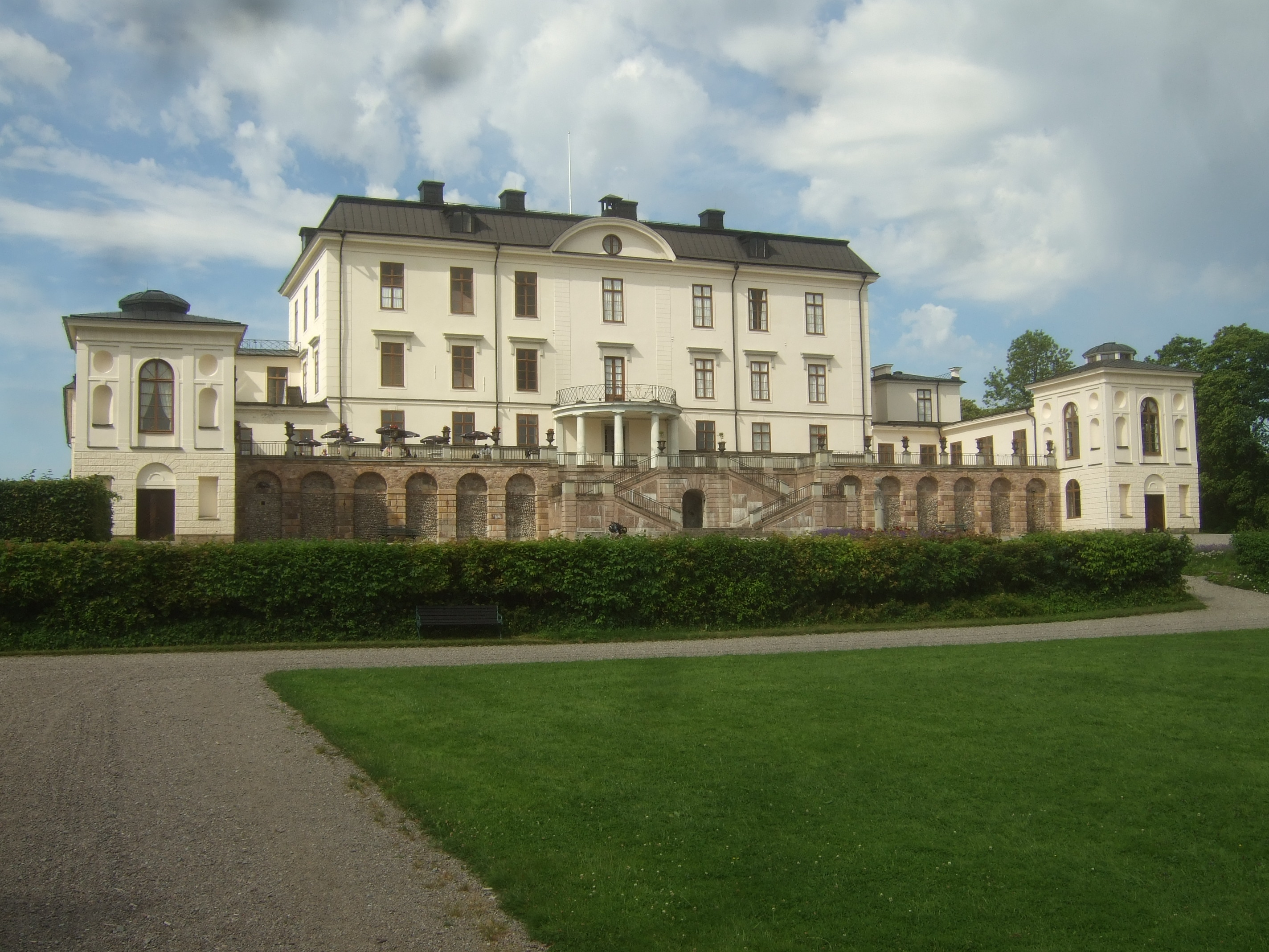 Buildings of Rosersberg Palace or "Rosersbergs slott" in Sigtuna Municipality